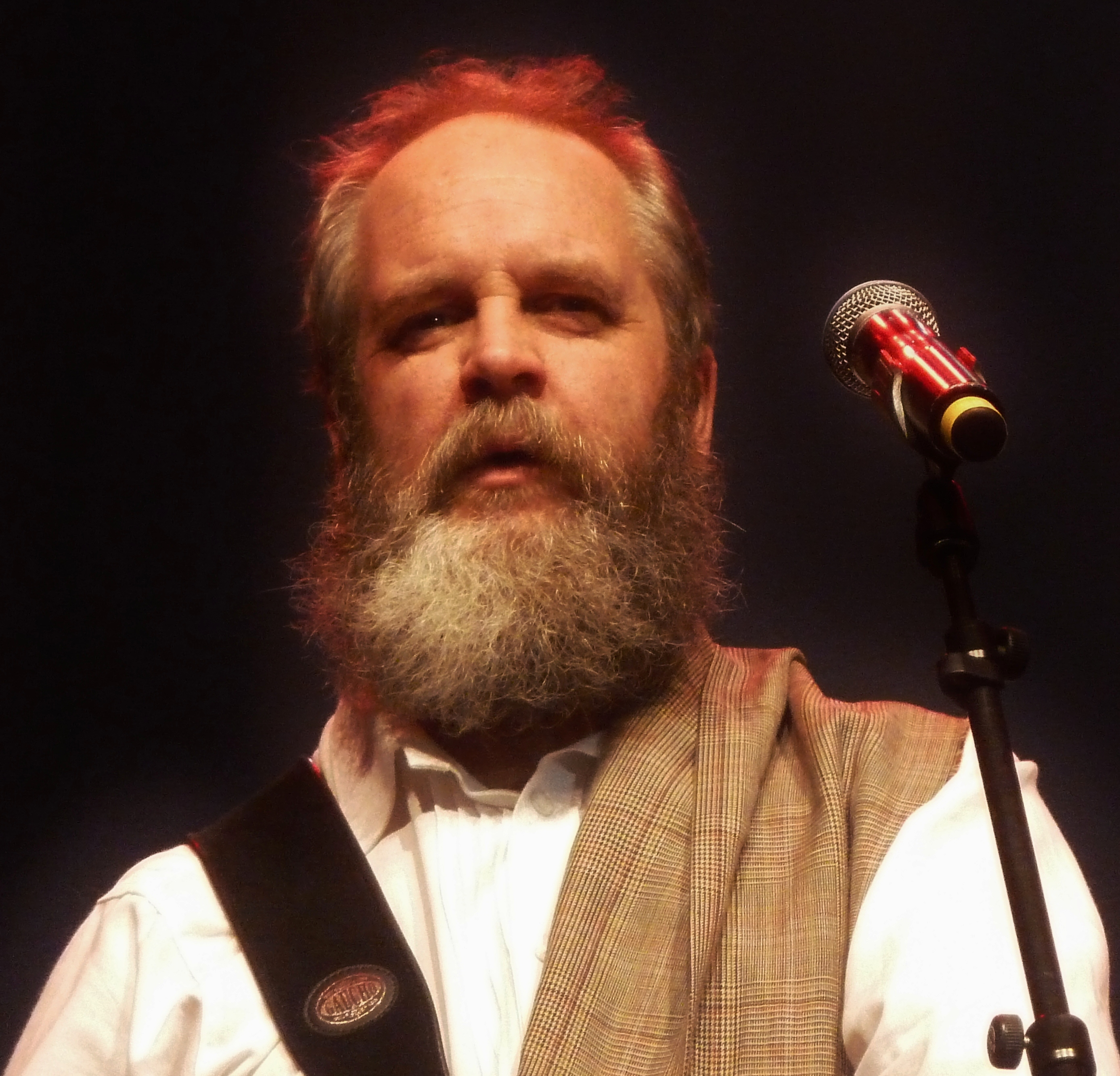 Musician Paul Kelly, member of The Kelly Family